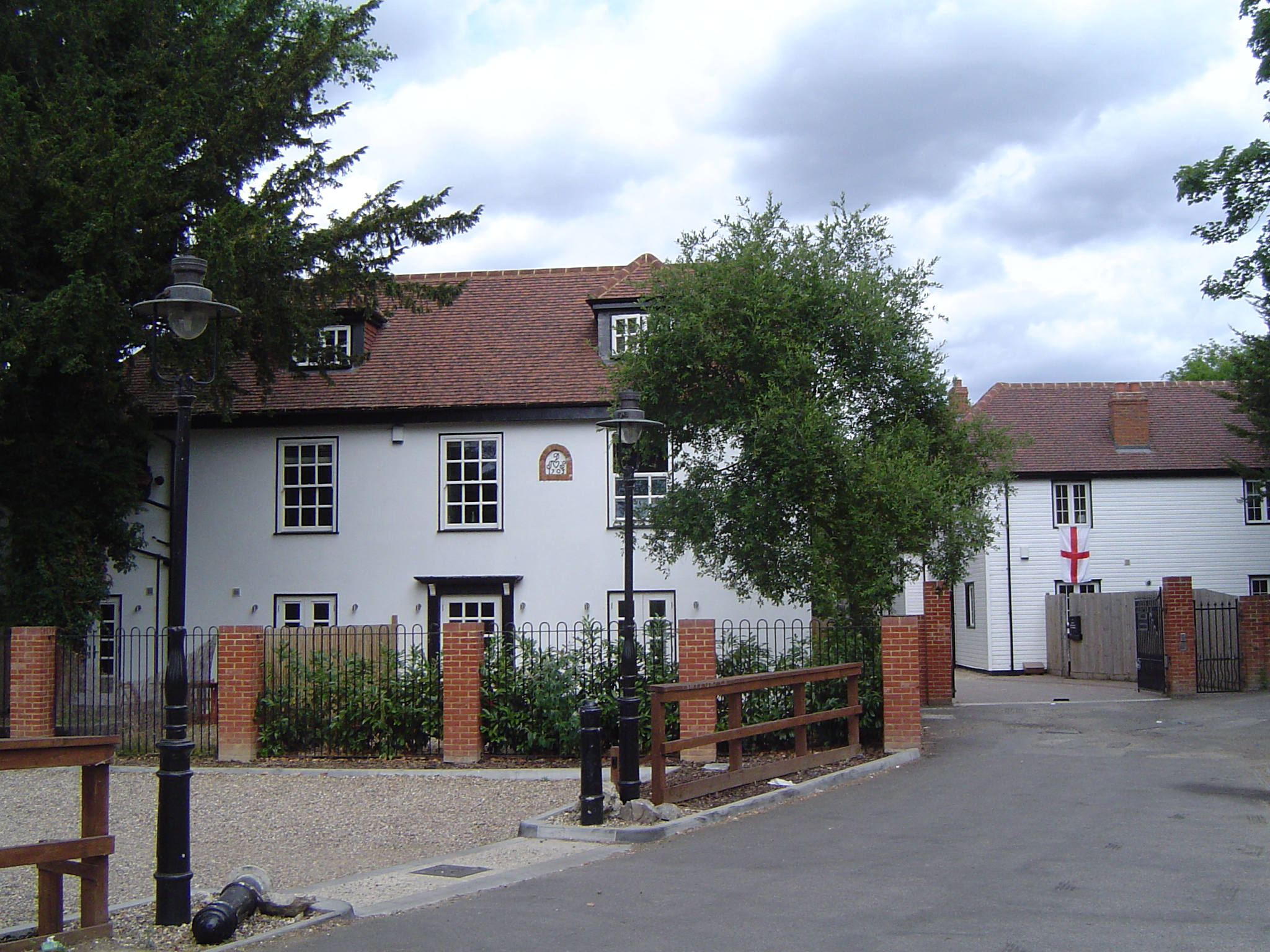 House dating back to 1705 on Boulters Island